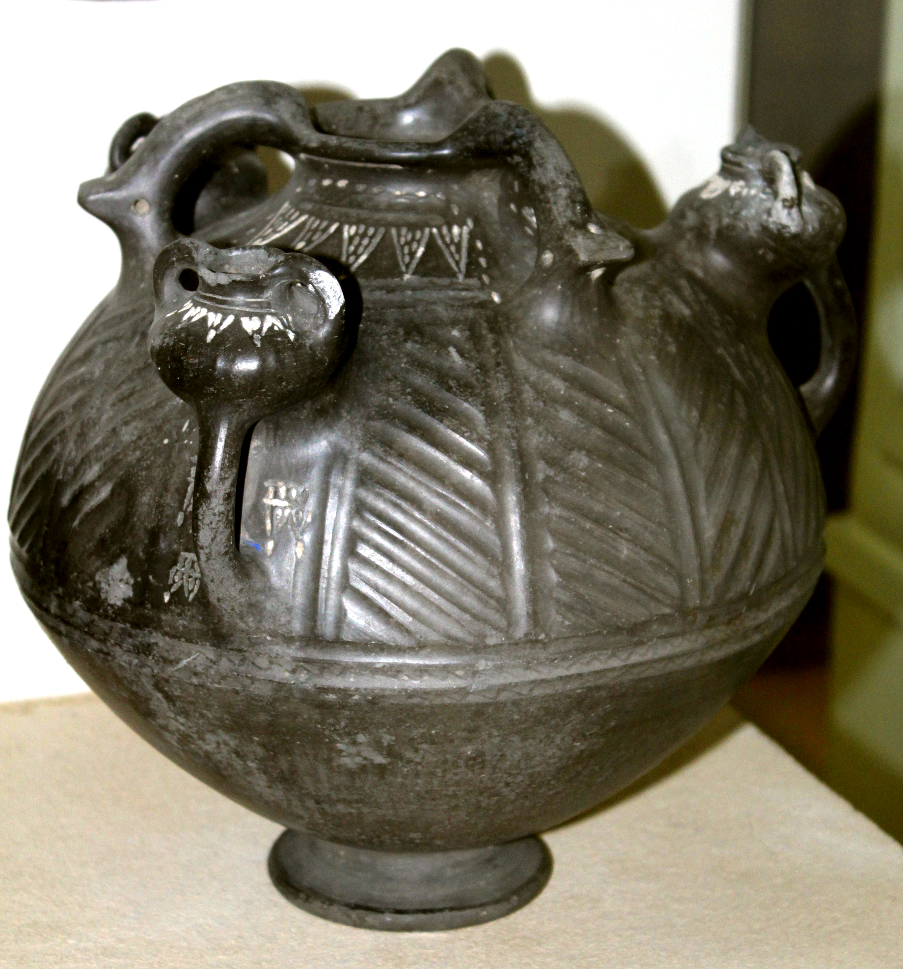 Cilalı küpə, Mingəçevir, Qafqaz Albaniyası